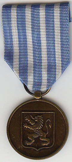 Medal for Military Merit (Belgium)